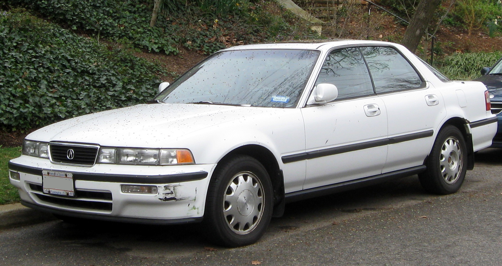 Acura Vigor photographed in Washington, D.C., USA.